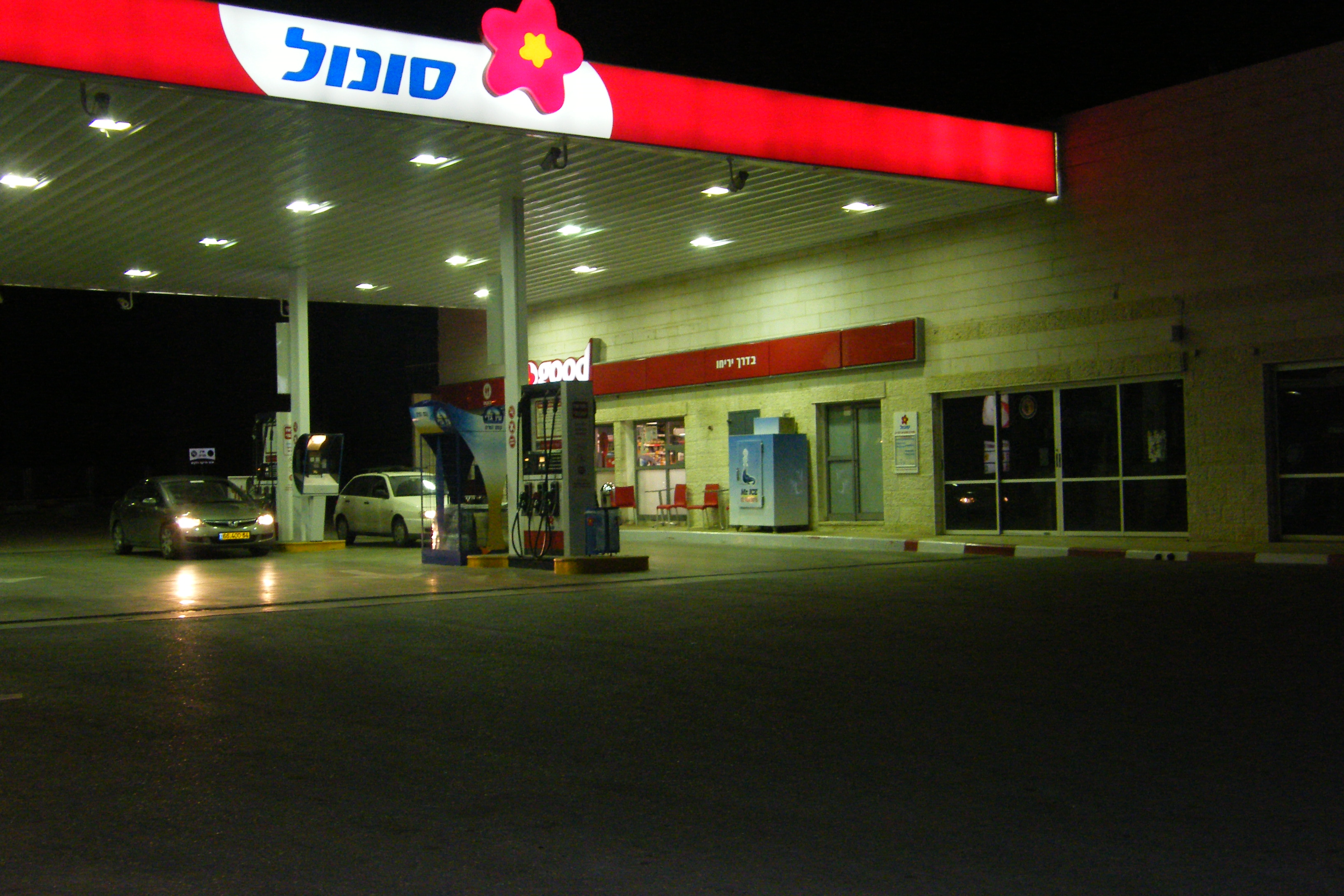 "Sonol" gas station - "on the Jericho way" at Kfar Adumim junction, Israel